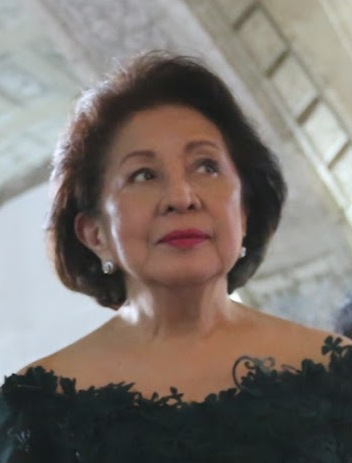 President Rodrigo Duterte marches with fellow principal sponsor Ombudsman Conchita Carpio-Morales during the wedding of Waldo and Regine Carpio at San Agustin Church in Intramuros, Manila on September 16.